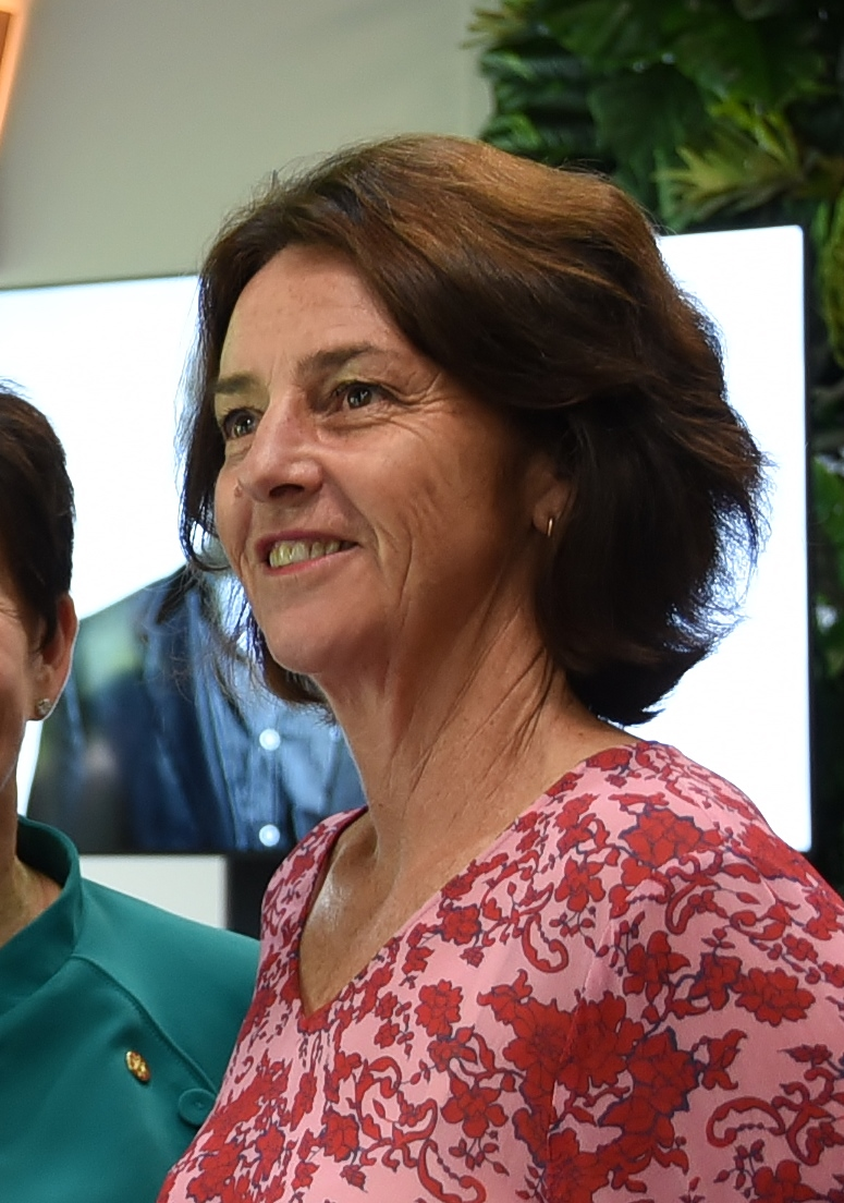 Their Excellencies with Rez Gardi and Dame Susan Devoy